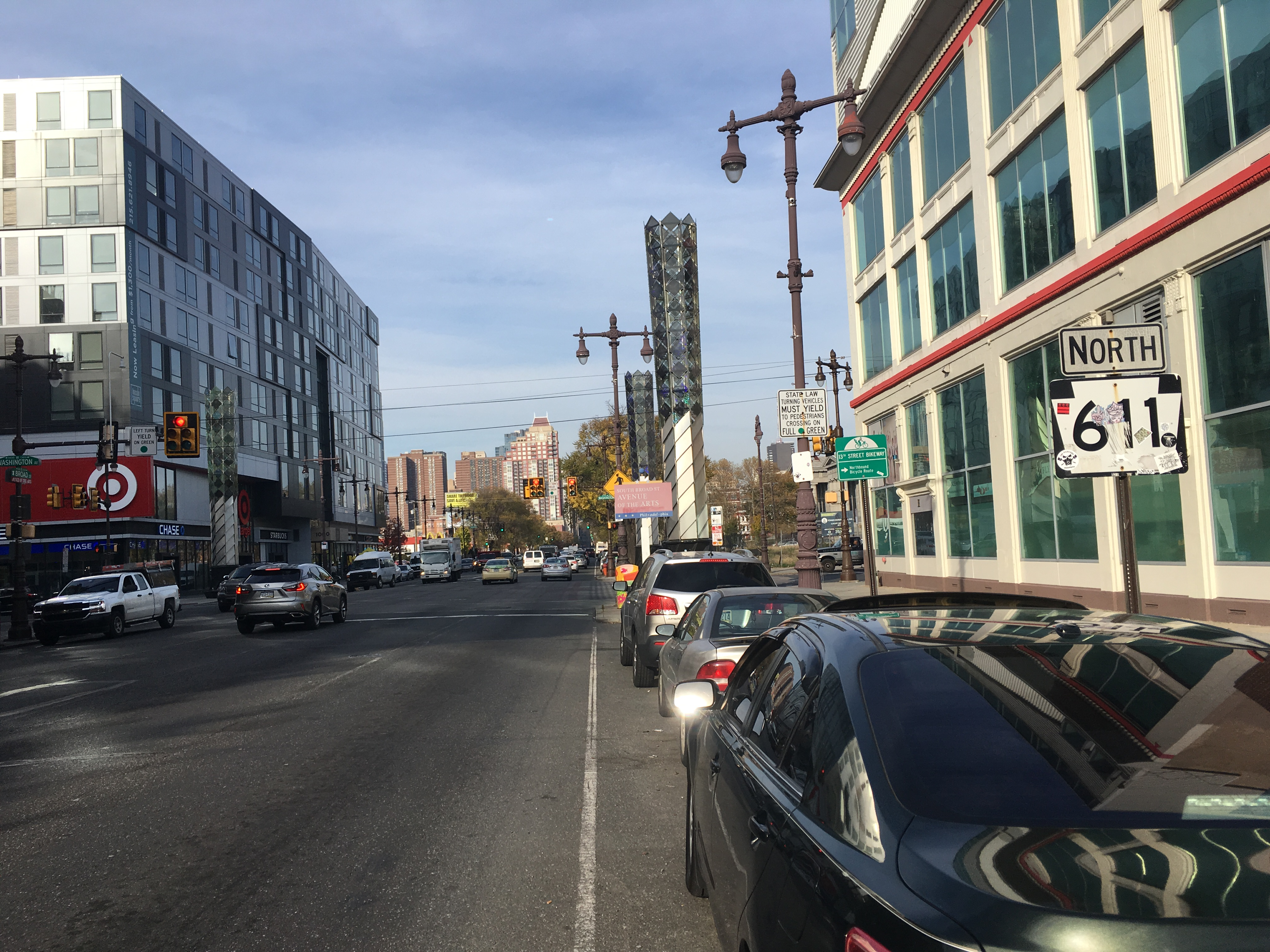 Northbound Pennsylvania Route 611 (Broad Street) at the intersection with Washington Avenue in Philadelphia, Pennsylvania